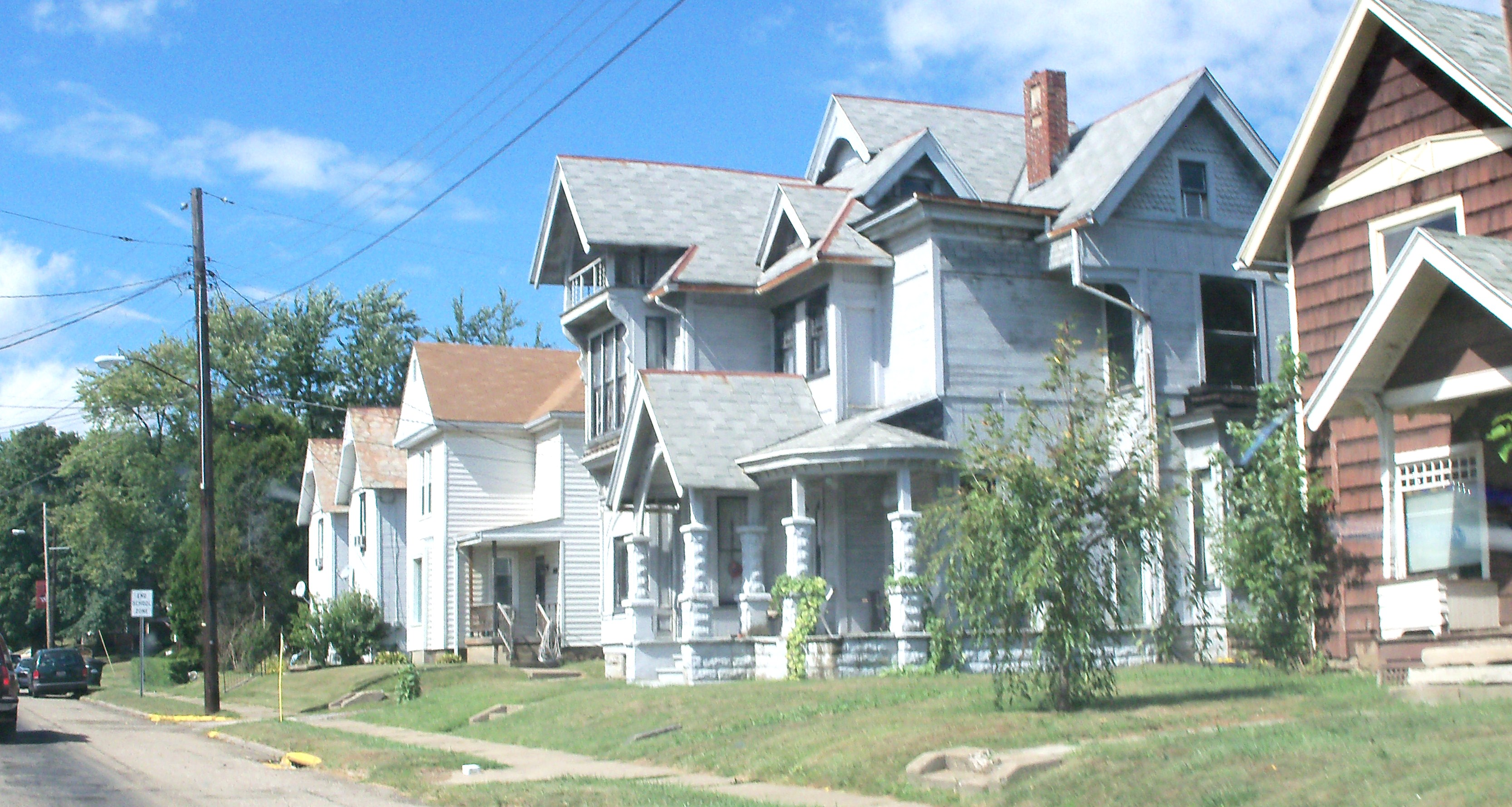 Along Route 800 in Mineral City, Ohio.